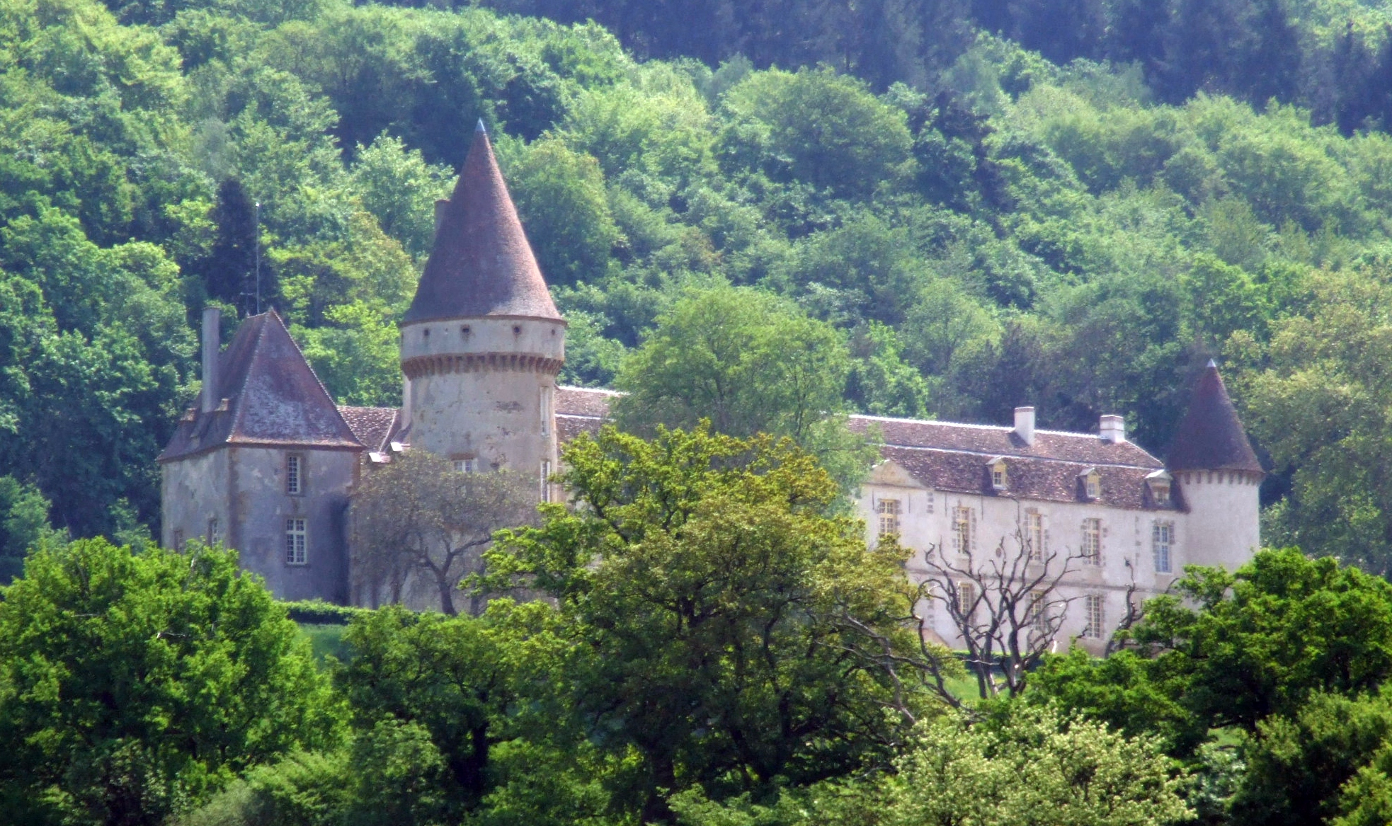 Bazoches castle, Bazoches, Nievre, Burgundy, FRANCE